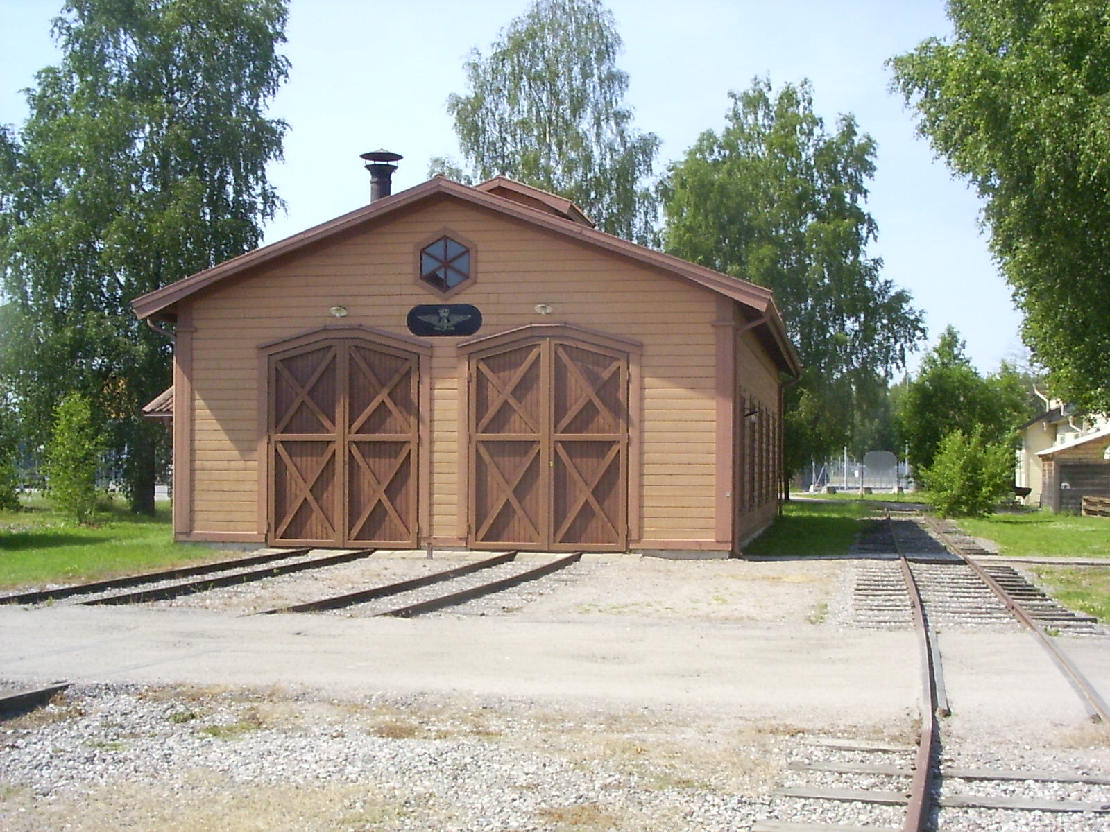 Köping, depot and museum of the narrow gauge railway Köping-Uttersberg-Riddarhyttan